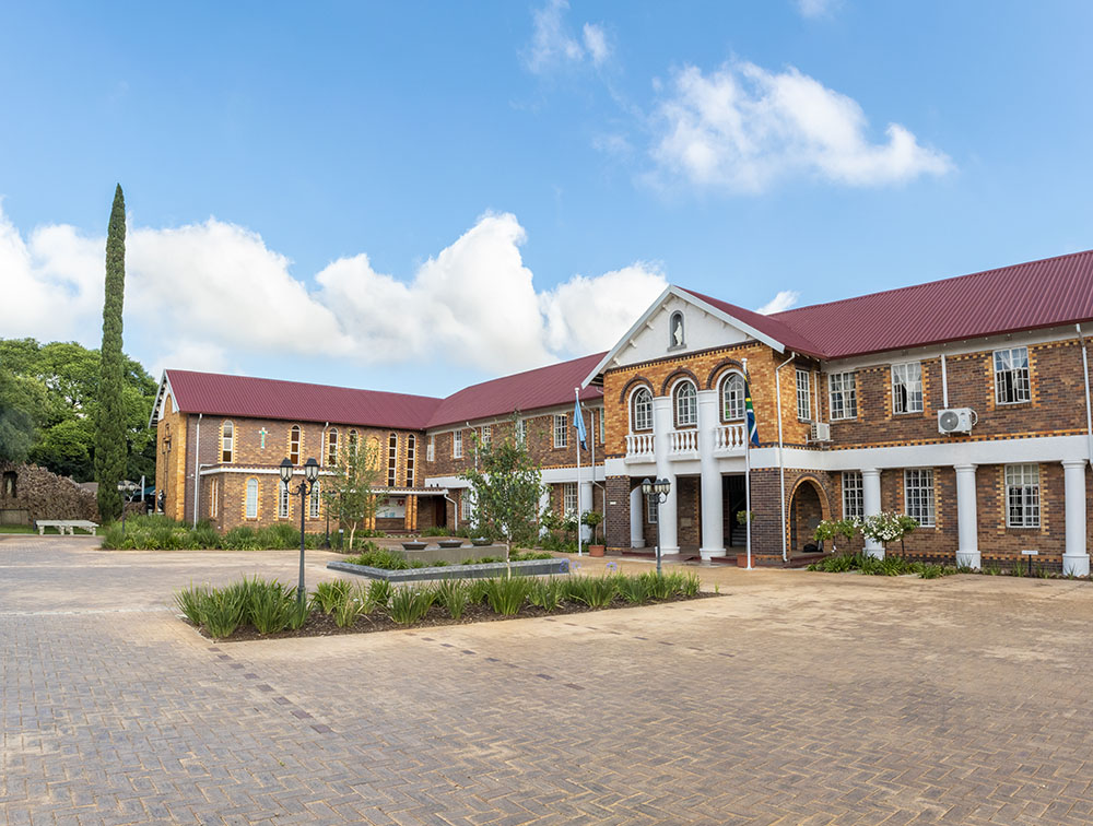 Side angle of the front of St Catherine's School